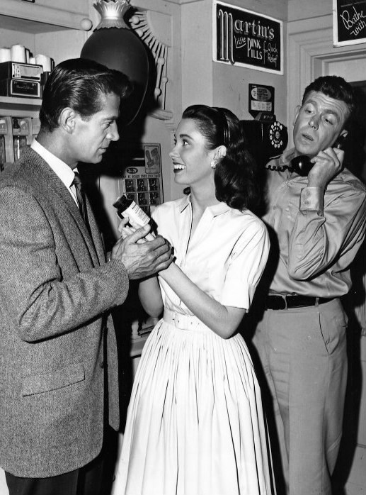 Photo of Andy Griffith, Elinor Donahue and George Nader from the television program The Andy Griffith Show. When a new doctor arrives in Mayberry, Andy thinks his chances with pharmacist Ellie are slipping away.